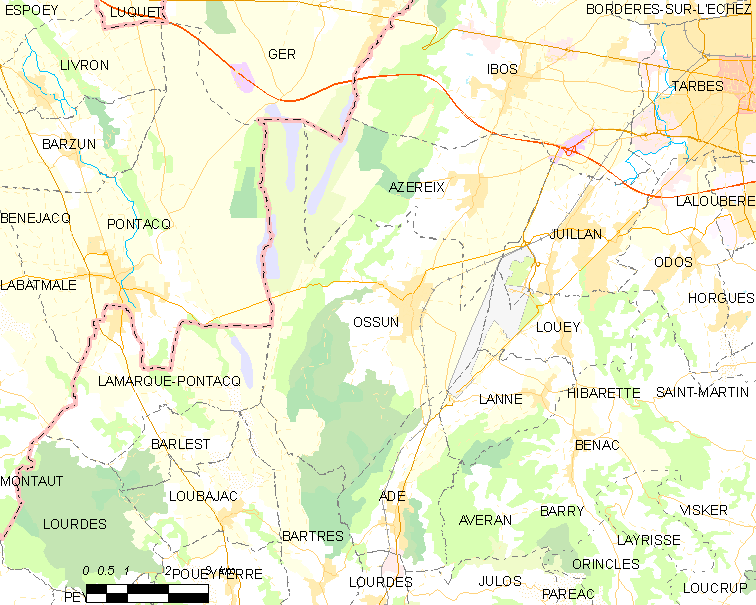 Map of French municipality